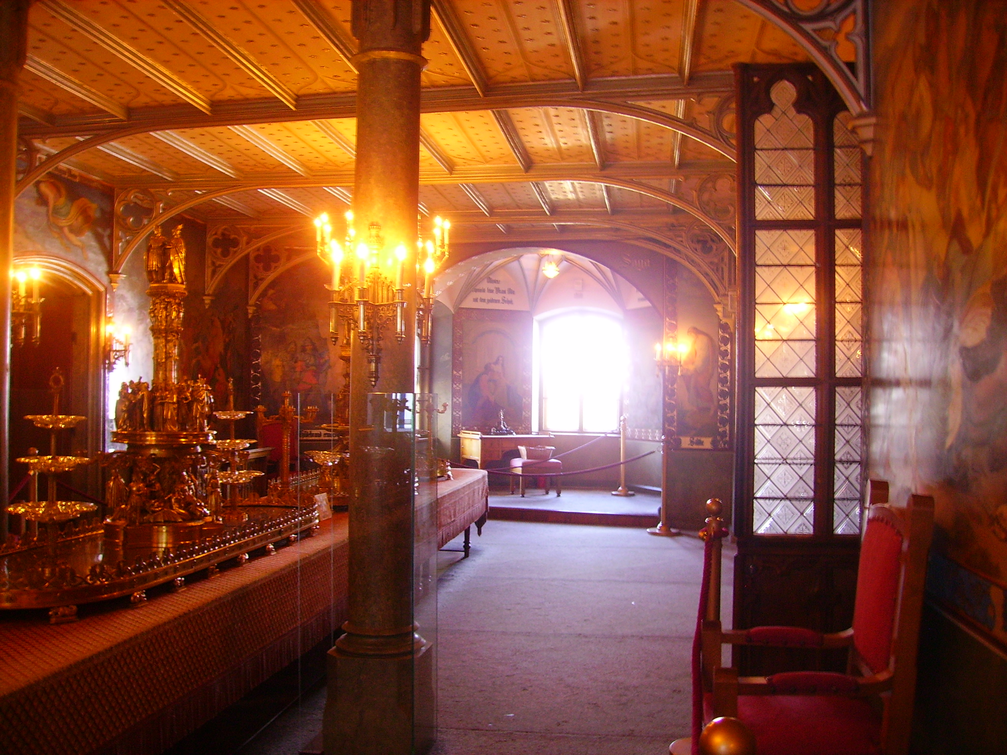 Celebration Hall of Hohenschwangau Palace, Schwangau